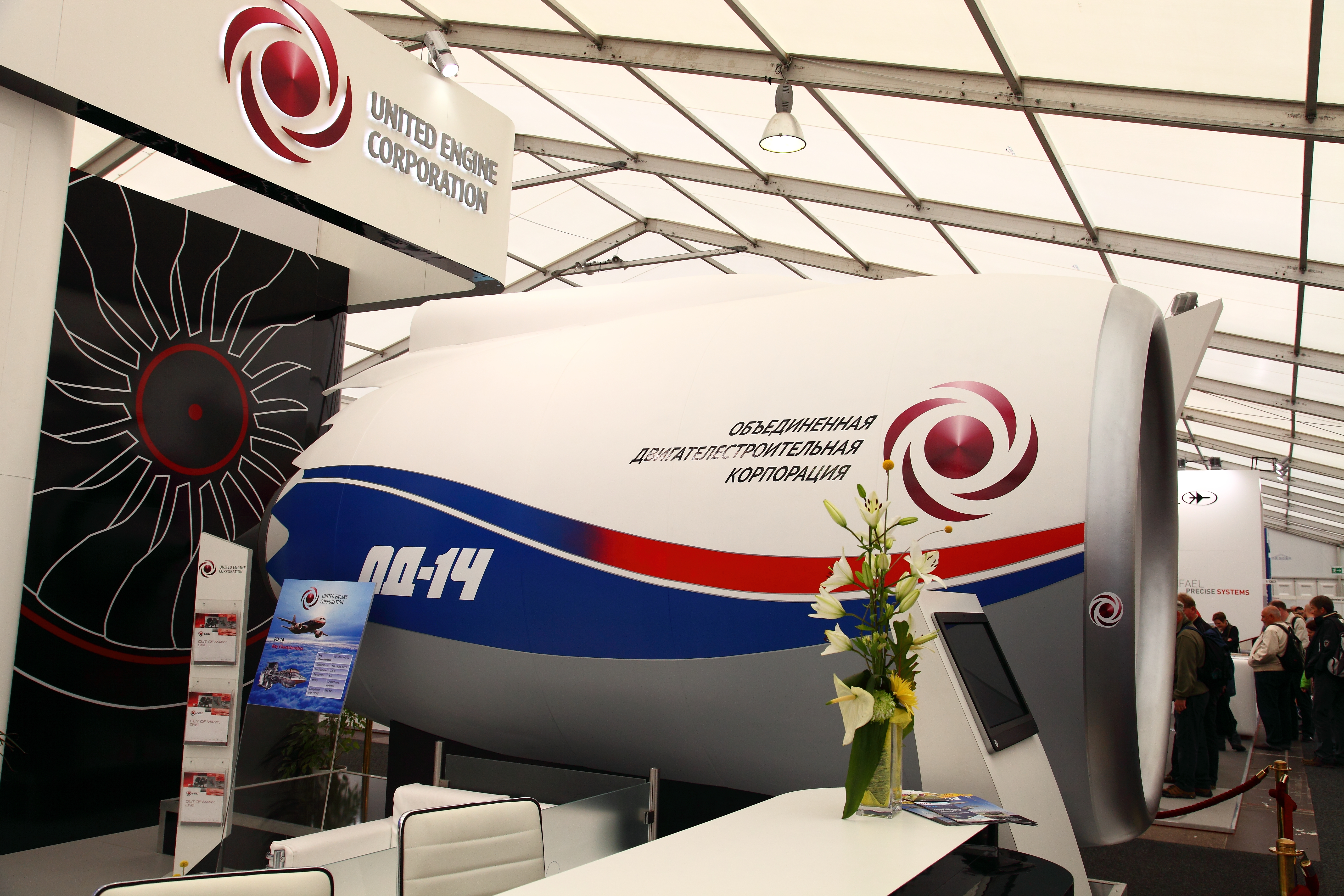 ILA Berlin Air Show 2012; see Объединённая двигателестроительная корпорация